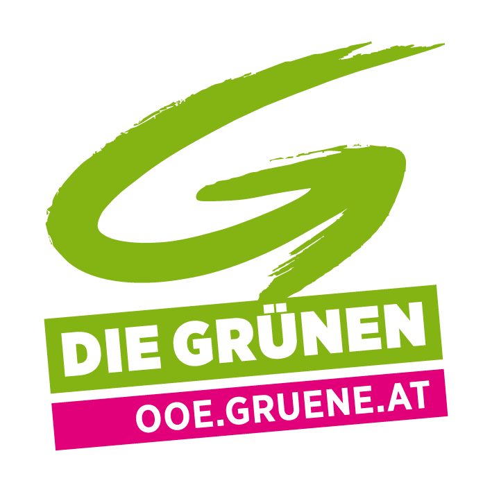 Logo Green Party Upperaustria